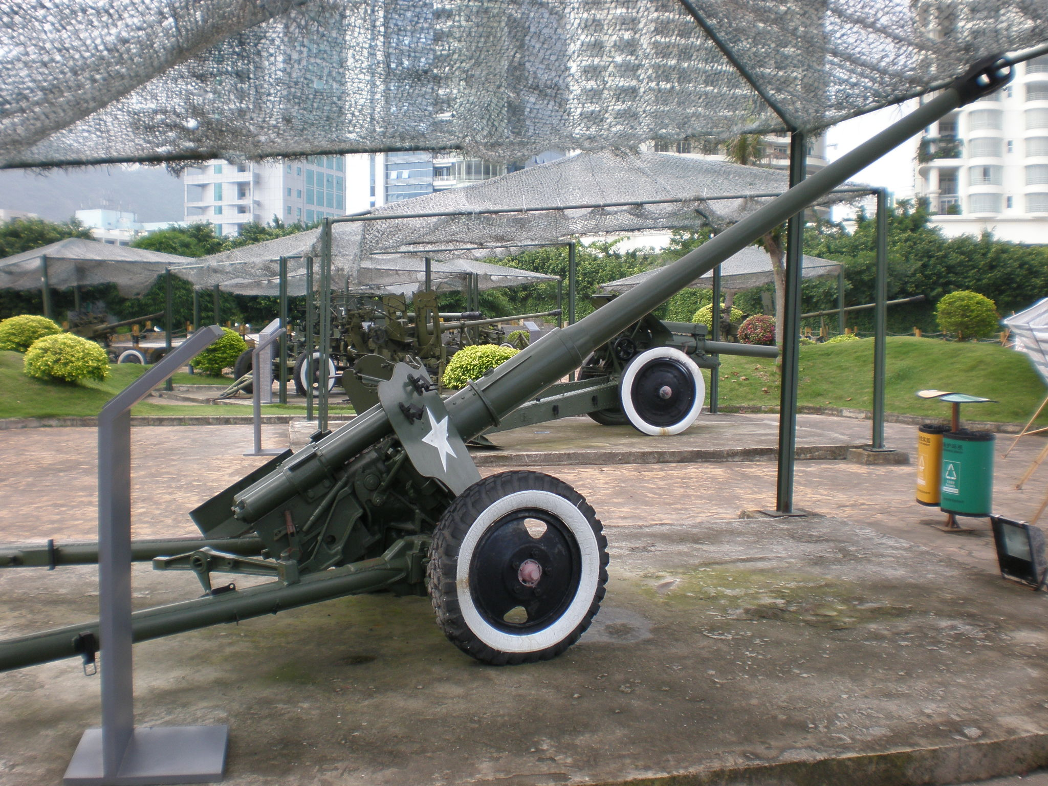 A Type 56 85 mm gun, a Chinese variant of the Soviet 85 mm divisional gun D-44, on display at the Minsk World military theme park in Shenzhen, China. The former Soviet aircraft carrier Minsk is the centerpiece of Minsk World.